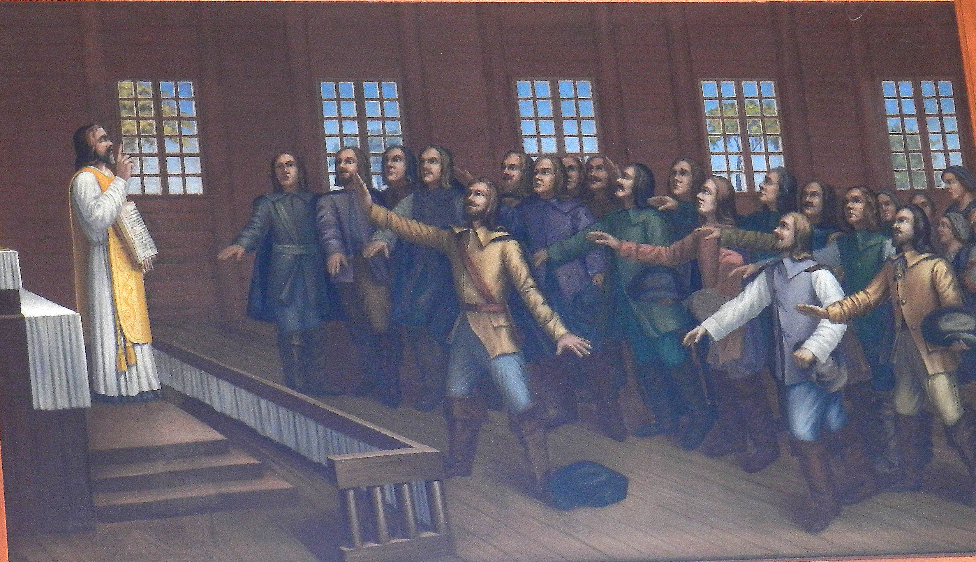 Painting at Mount Royal Park (Montreal)